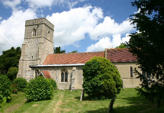 St Mary's parish church, Lidgate, Suffolk, seen from the south